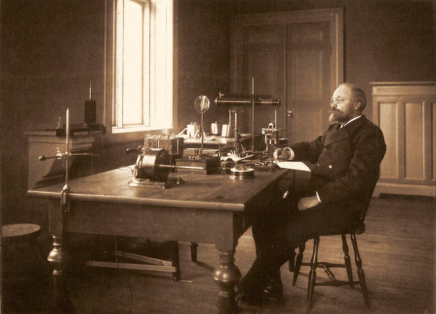 Magnus Blix in his laboratory, (1849-1904), Swedish physiologist, professor and rector magnificus at Lund University, Sweden. Blix is best known for his work in the 1880s concerning somatic sensation.